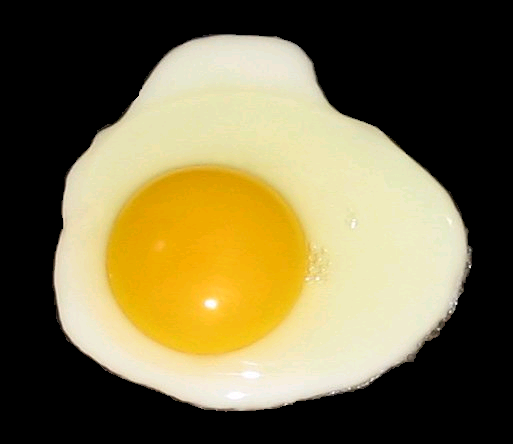 a picture of an egg being fried (:Image:Fried egg), with a black background digitally added